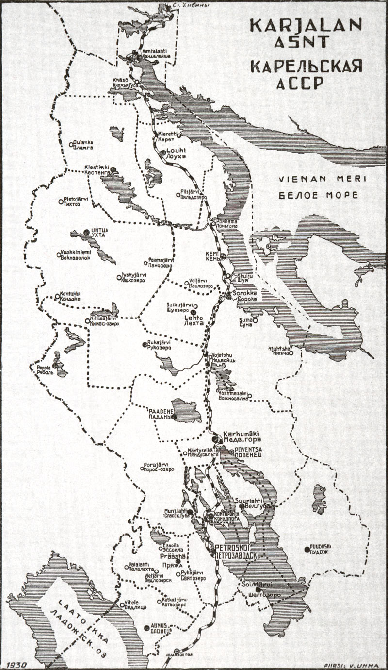 Map of the Karelian ASSR in 1930 in Finnish and Russian